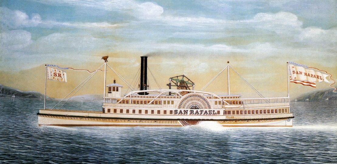 San Rafael, San Francisco Bay steaamboat. Oil on canvas by James Bard.